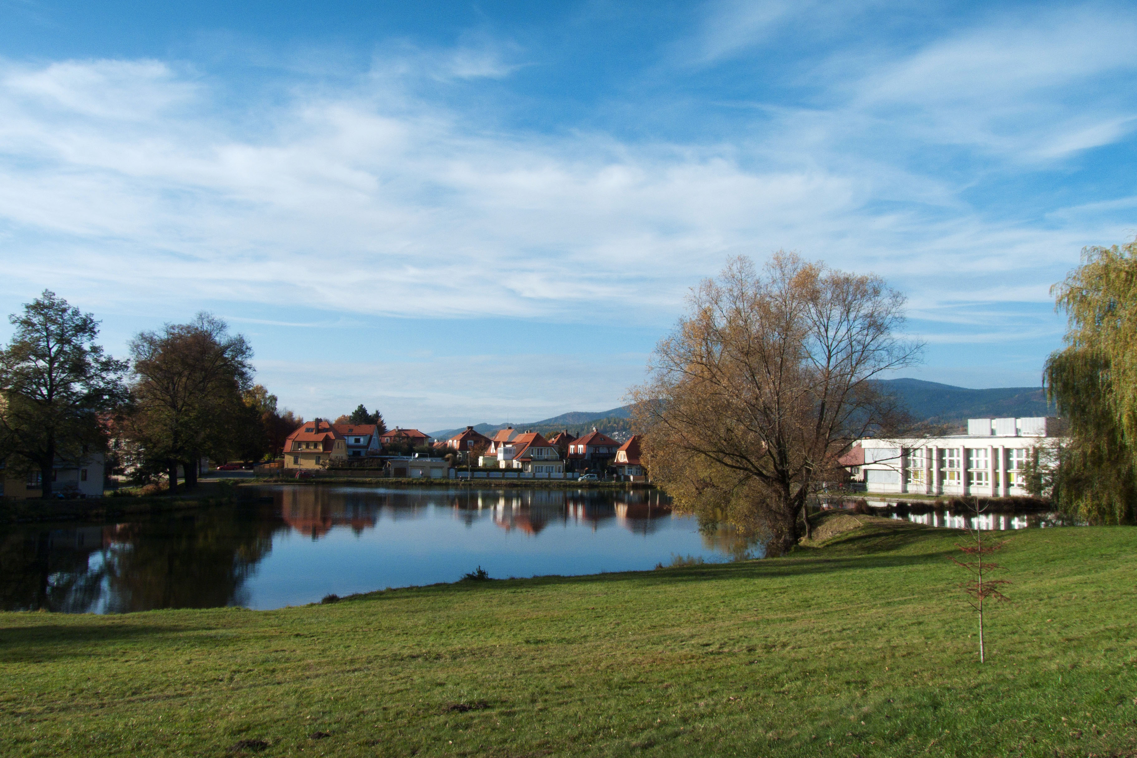 Hornobranský pond in Český Krumlov, Czech Republic